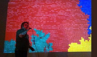 Performance